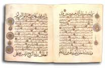 Manuscripts Emirate of Abdelkader